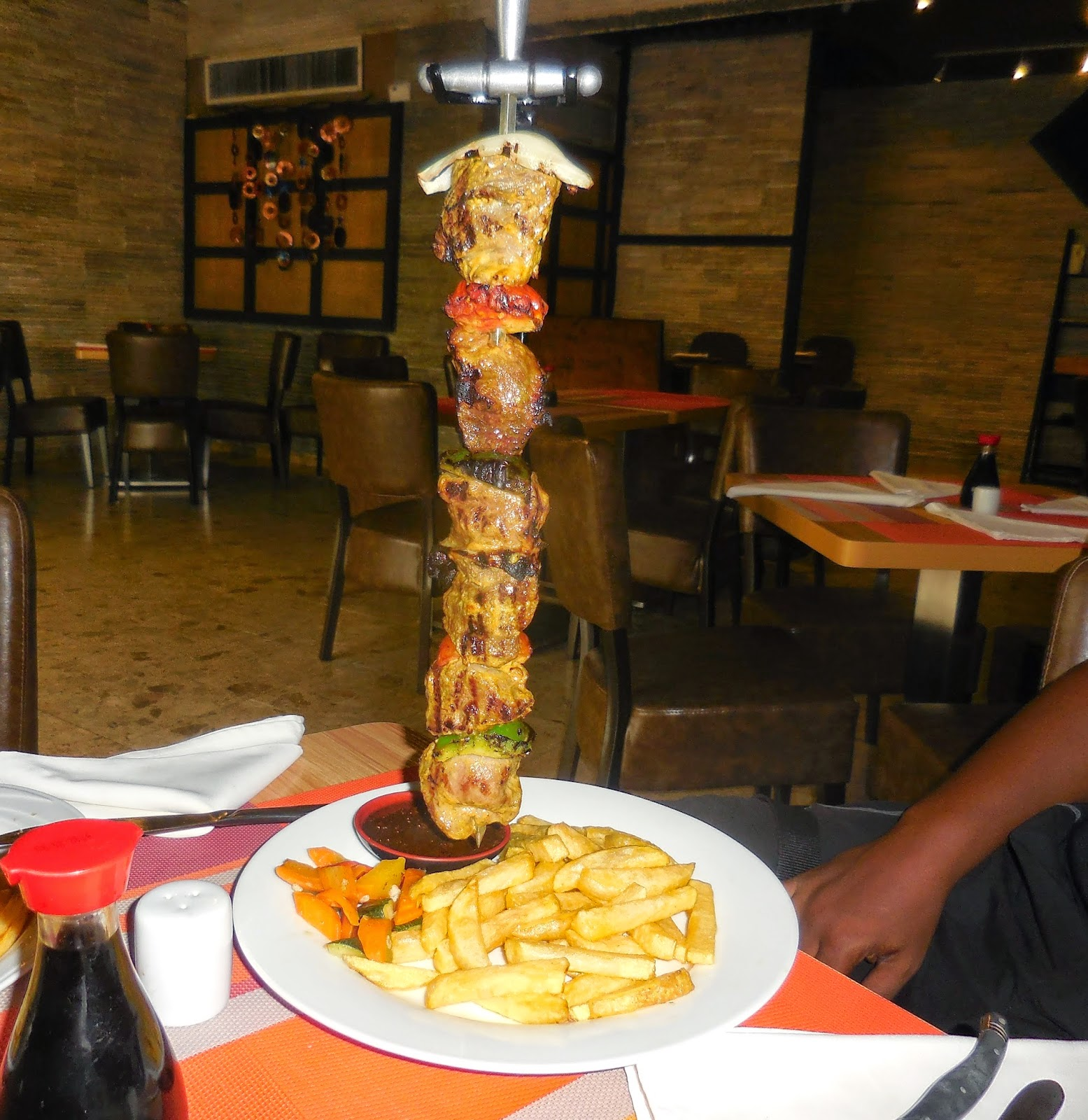 Traditional camel Meat at Melting Pot Restaurant Djibouti